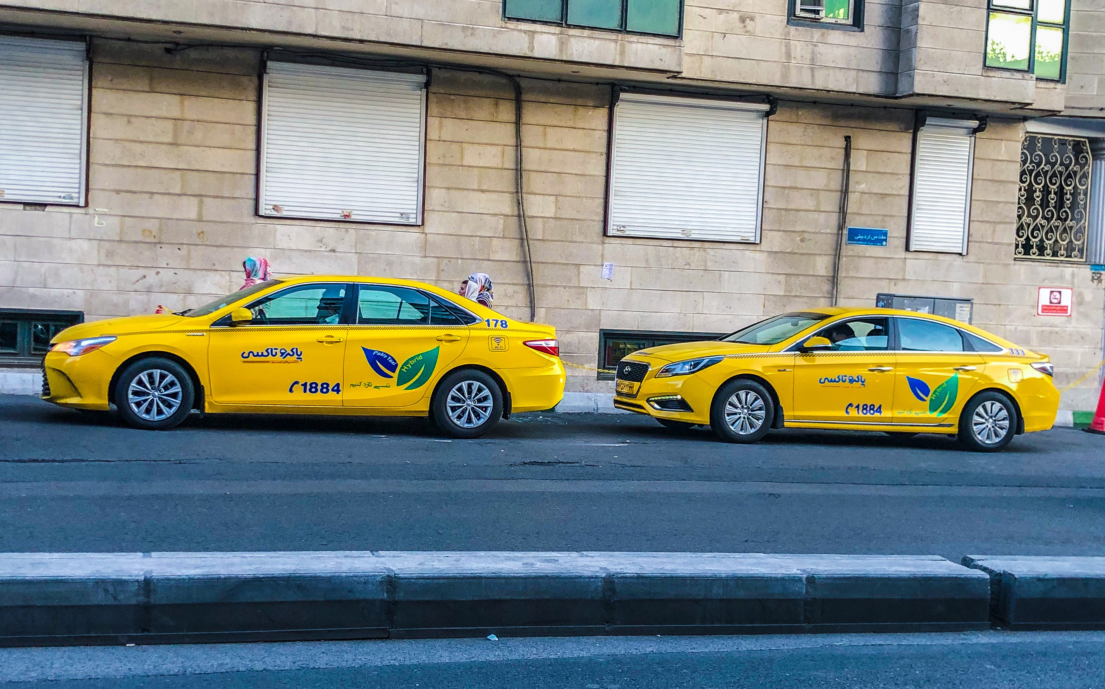 Hybrid Taxis in Irans Capital city Tehran